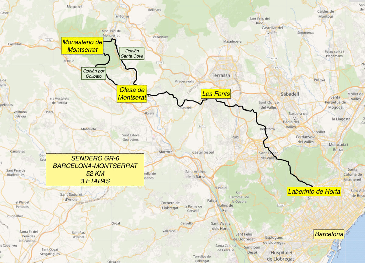 Map of GR-6 Barcelona-Montserrat